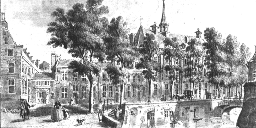 Saint Jerome's (school) in Utrecht